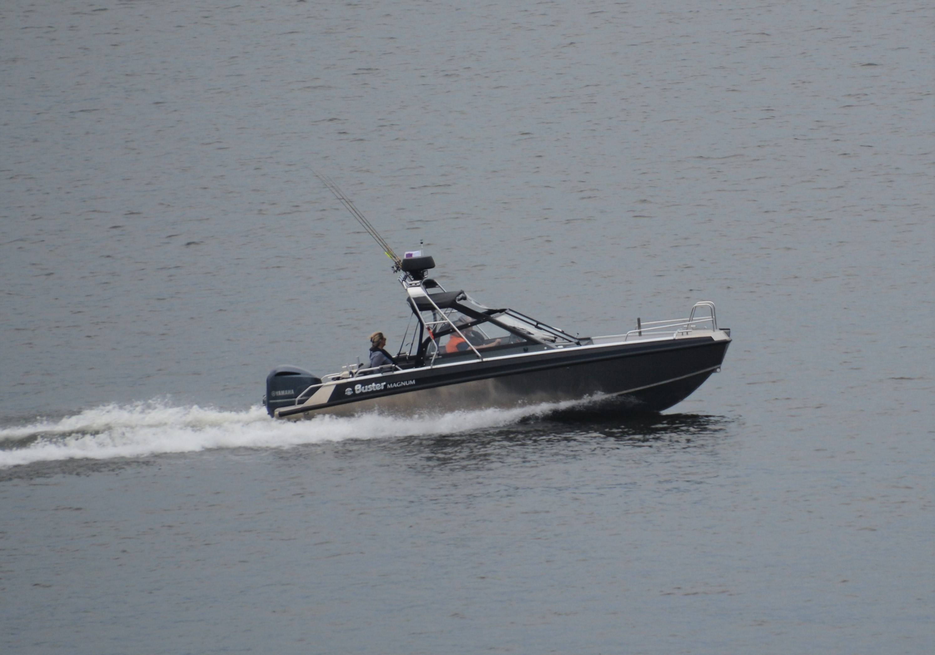 Buster Magnum